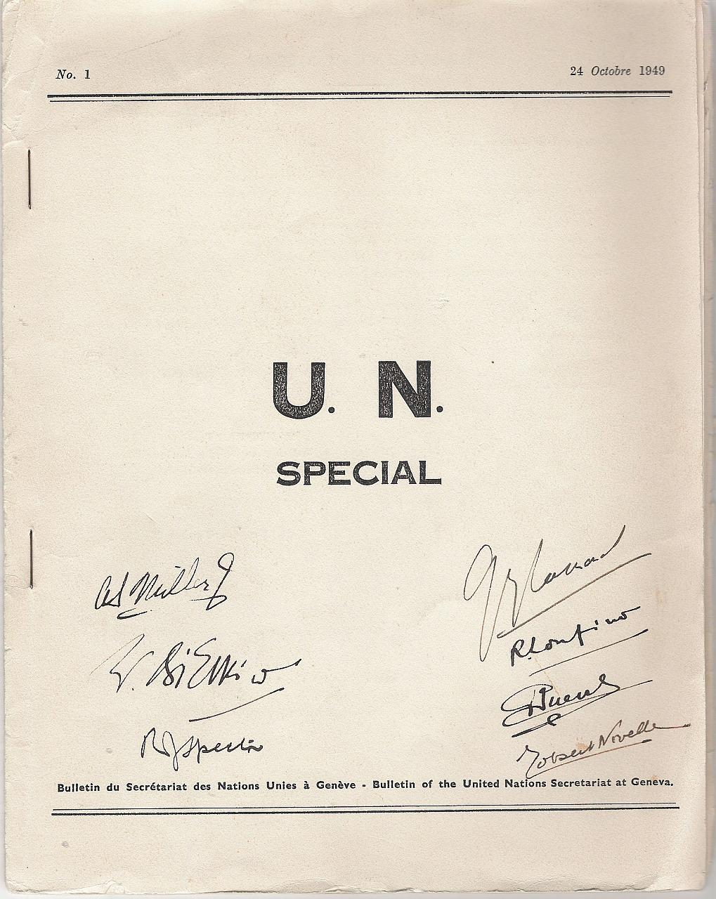 Typed and signed cover of No.1 of the UN Special